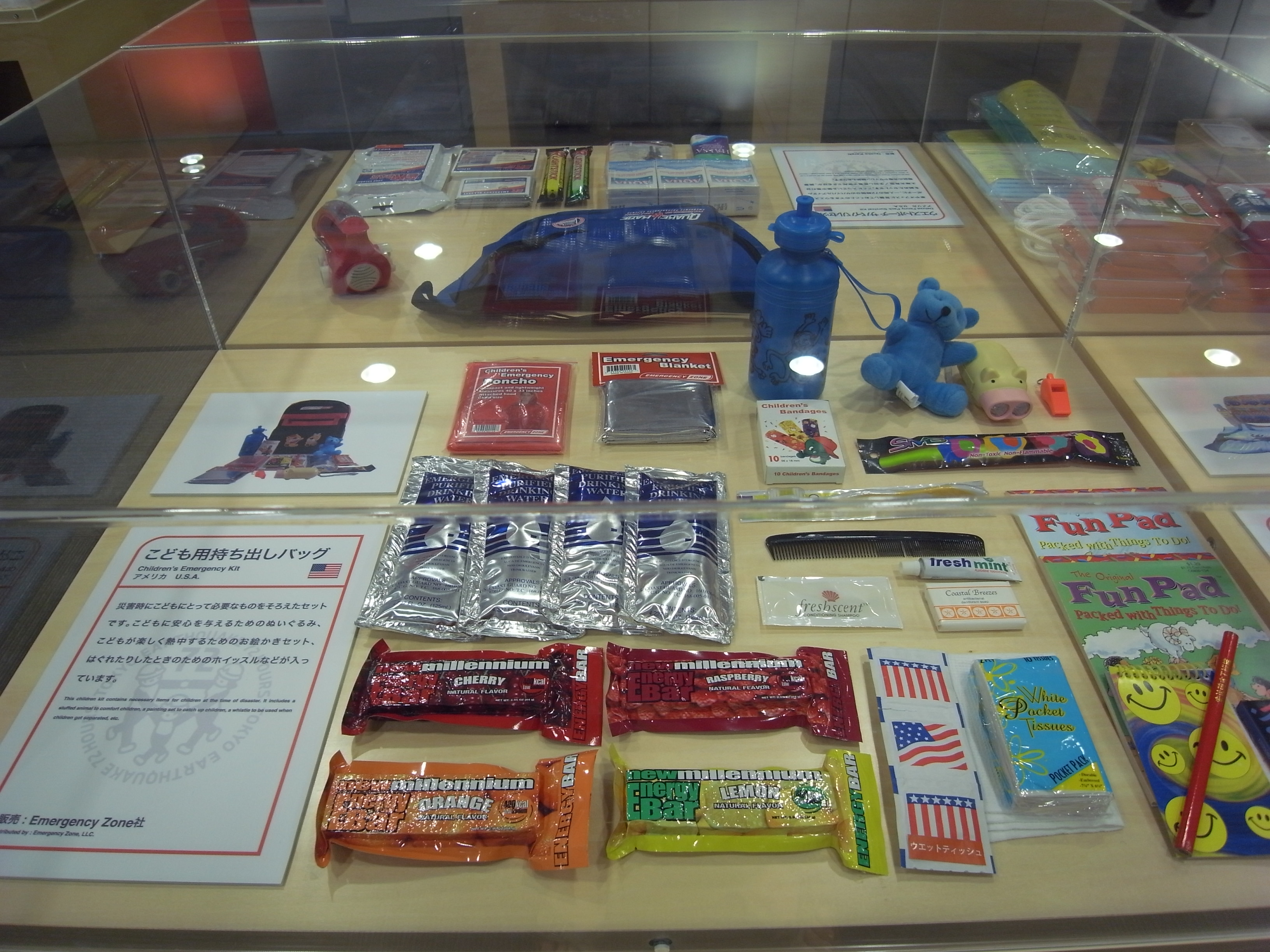 そなエリア（葛西臨海広域防災公園）The Disaster Prevention Experience-learning Facility 東京臨海広域防災公園